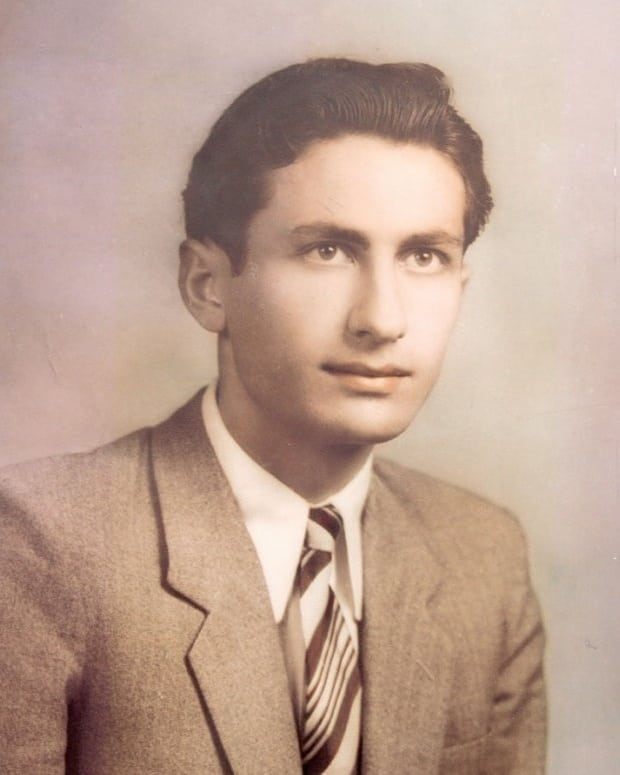 Markos Drakos EOKA fighter 1955-1959; portrait held at the University of Cyprus